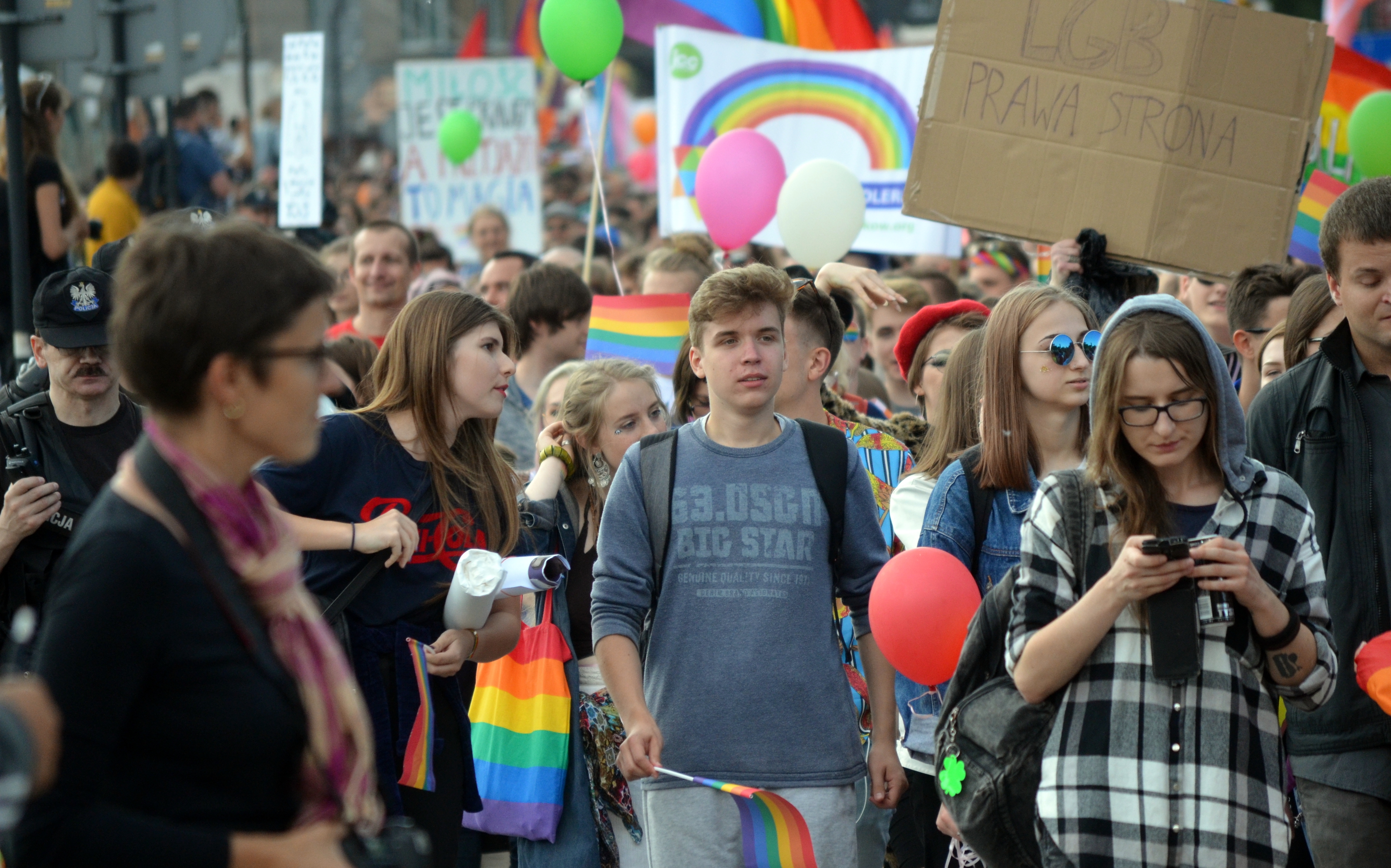 Equality March 2018 in Kraków